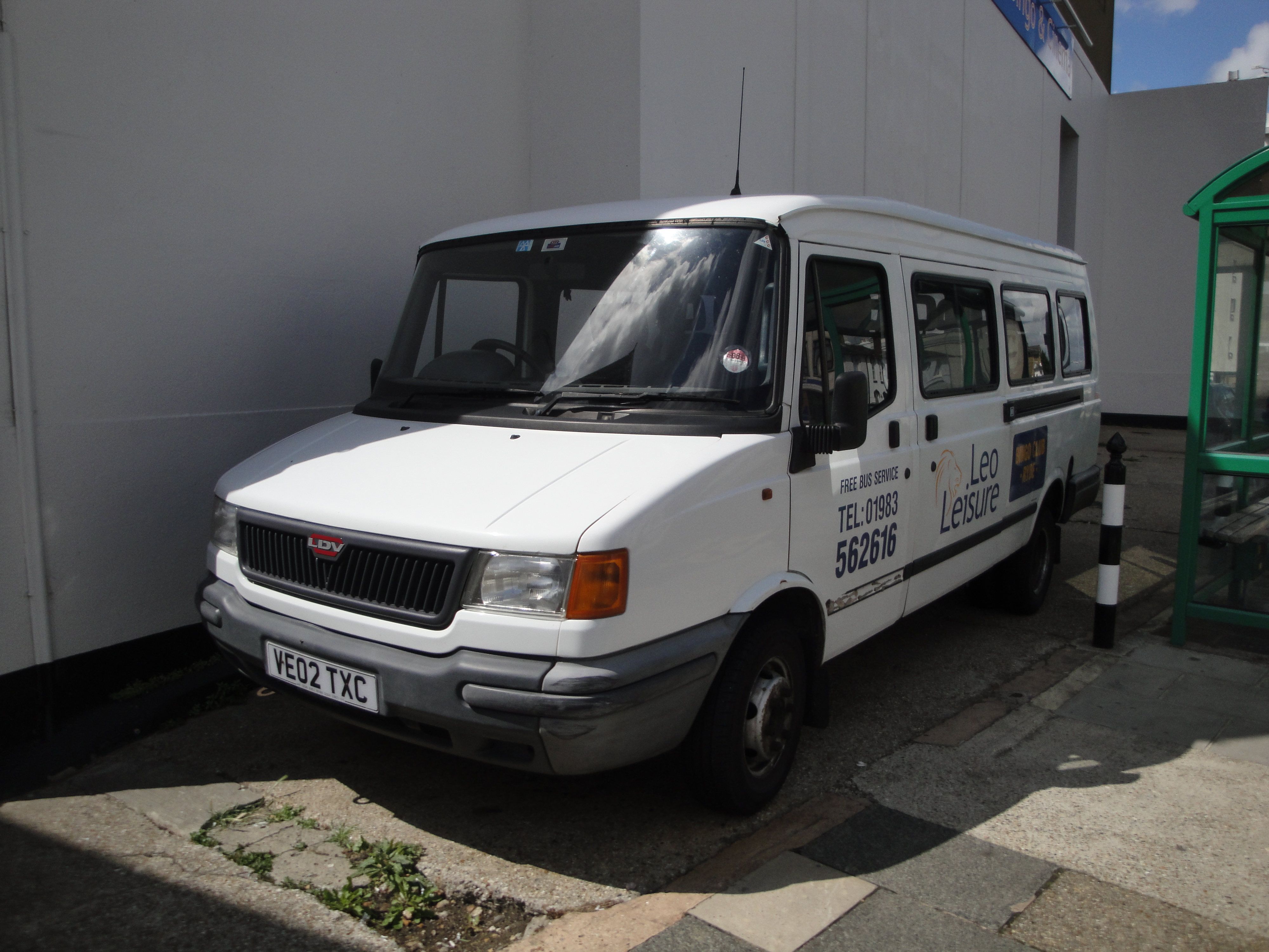 Leo Leisure VE02 TXC, an LDV Convoy minibus, used for transporting people from around Ryde to the Commodore Cinema, Ryde, Isle of Wight. It is seen parked outside.